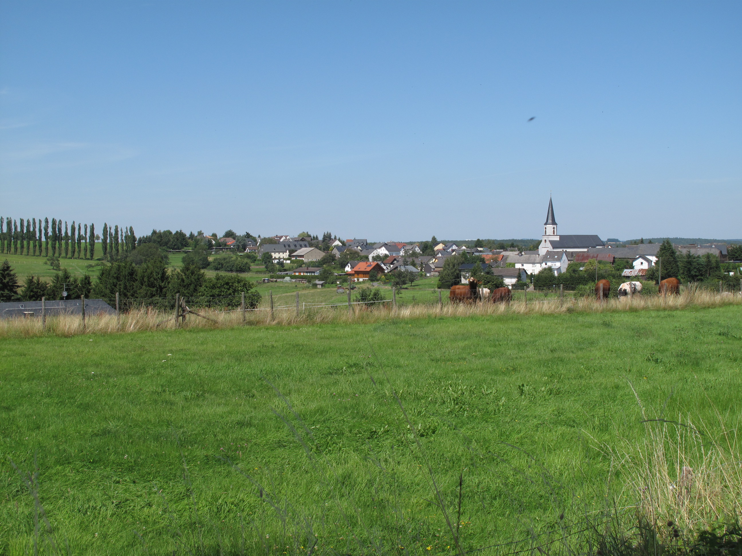 Hontheim, view to the village